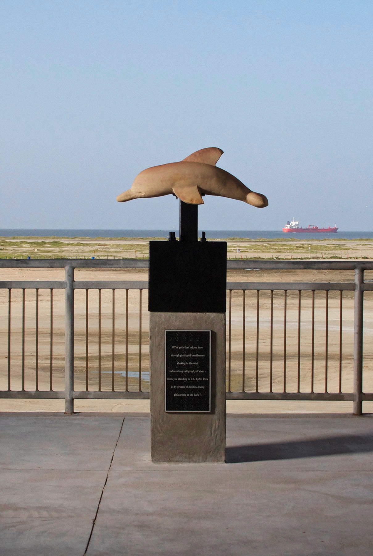 Pink Dolphin Monument (statue), R.A. Apffel Park, Galveston, Texas, USA